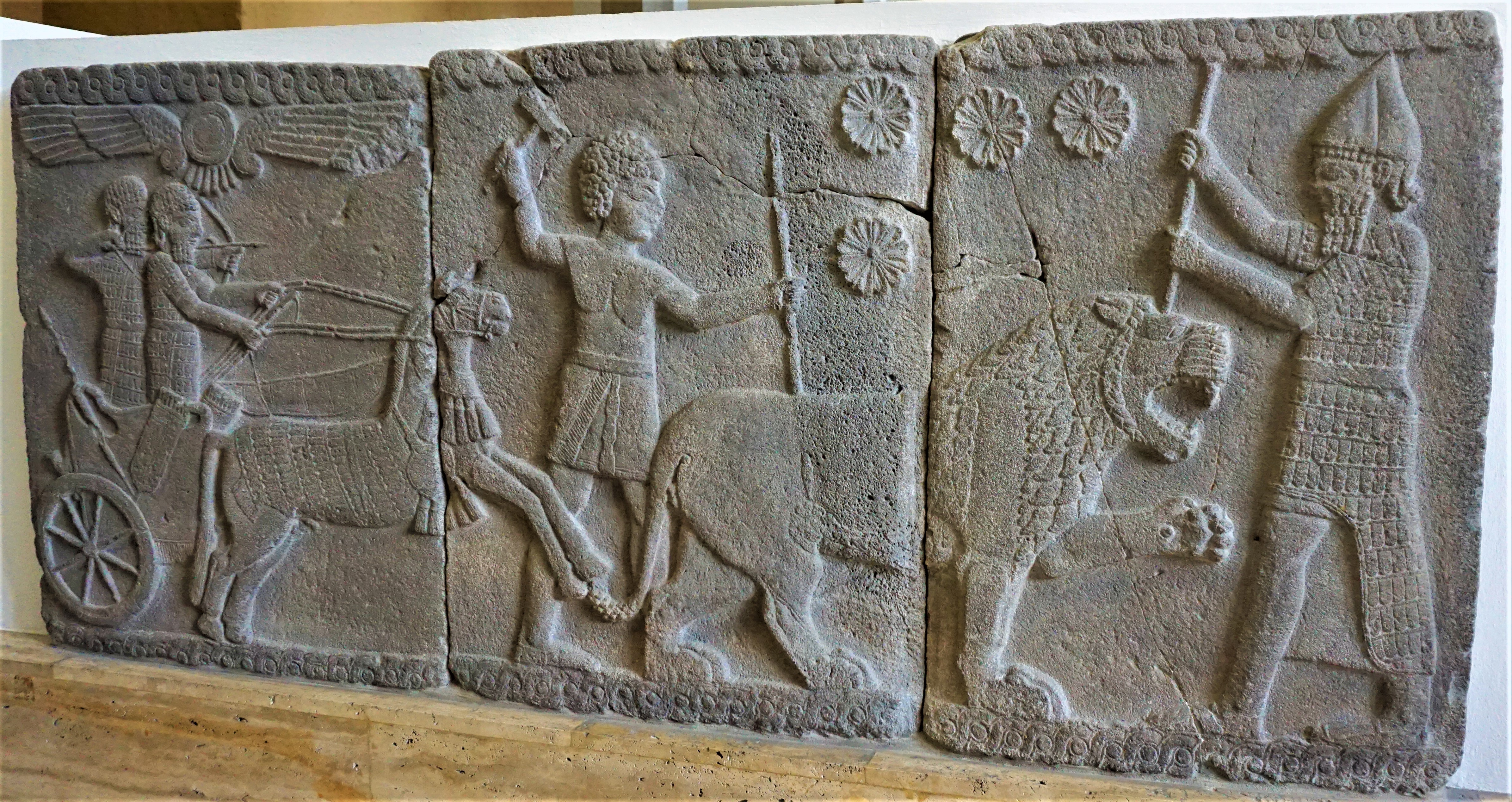 Lion Hunting Scene - 750 BC - Pergamon Museum - Joy of Museums, for information found at Coba Höyük, about 750 BC.